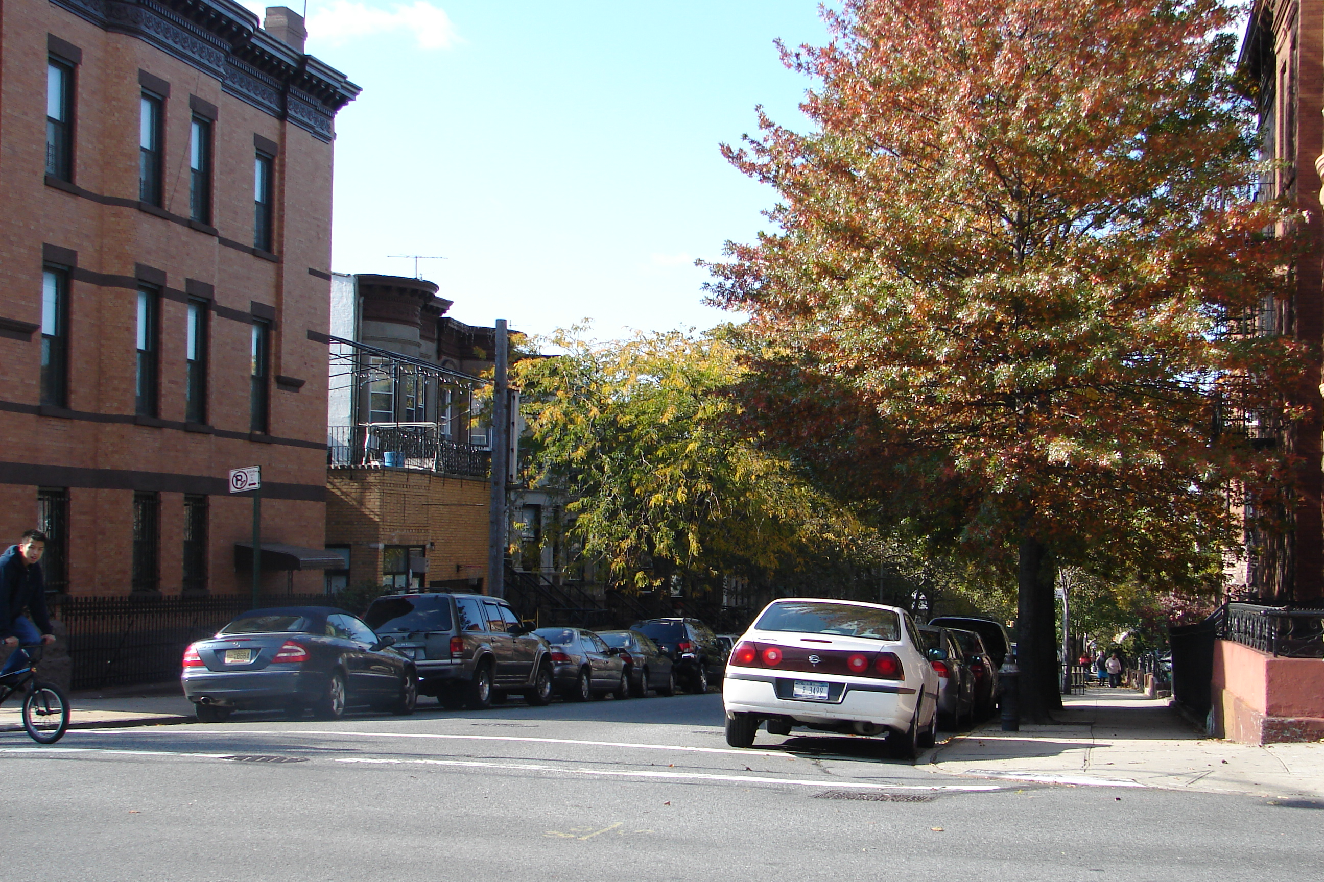 Looking west across 6th Avenue and down 47th Street in Sunset Park Kiswahili: 47th Street, Brooklyn.